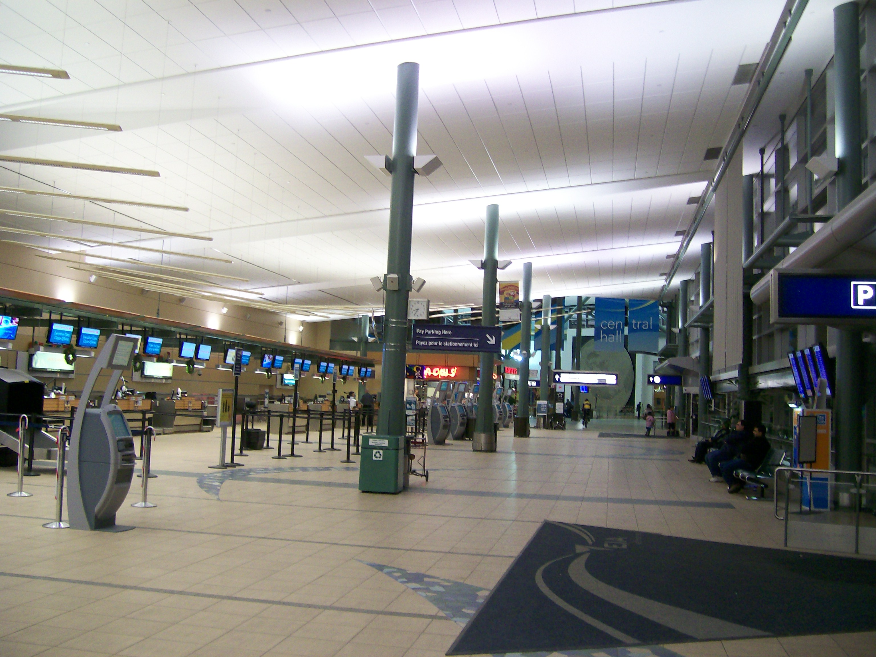 The check-in area at Edmonton International Airport, seen on a Saturday evening.